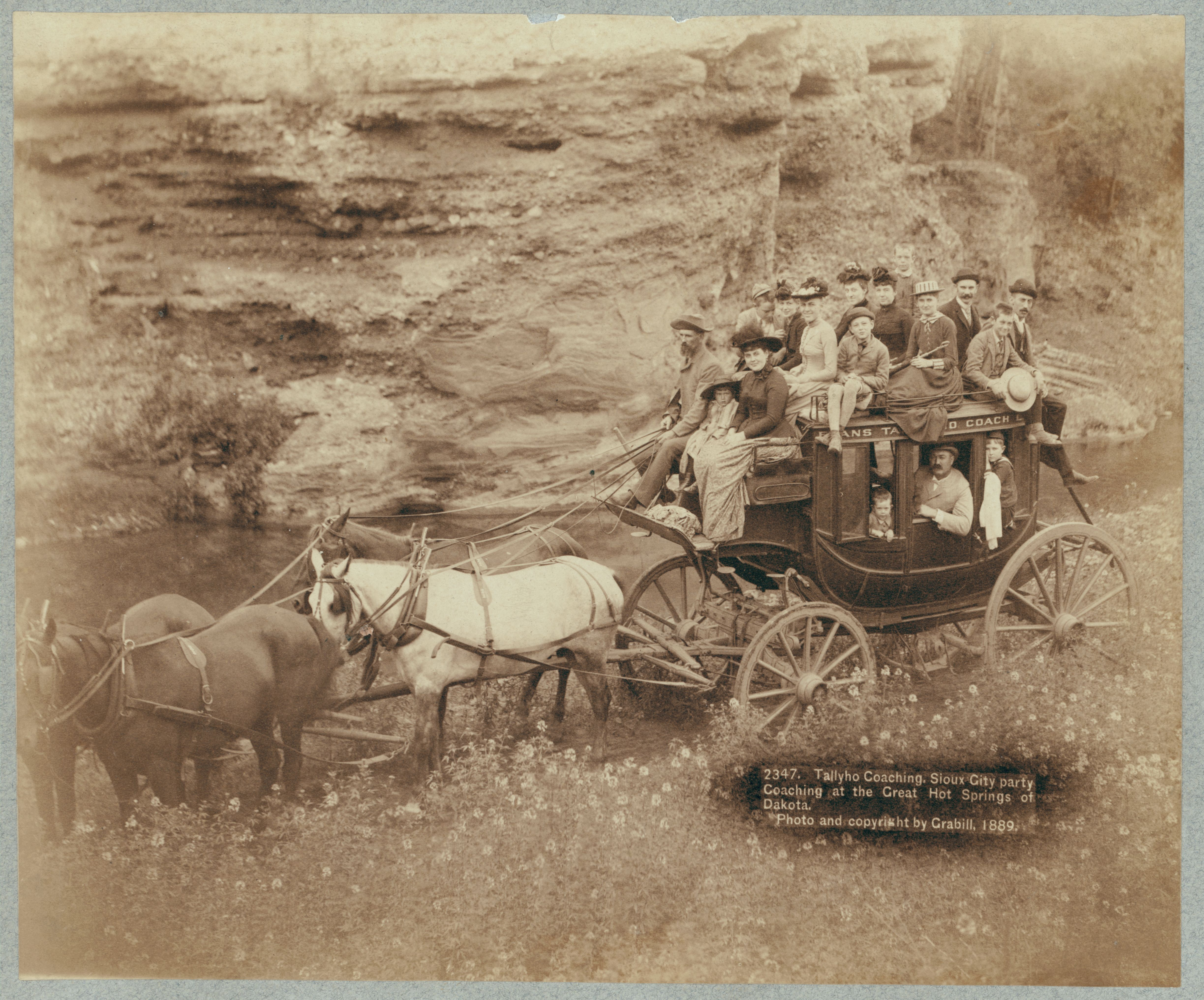 Original title Tallyho Coaching. Sioux City party Coaching at the Great Hot Springs of Dakota